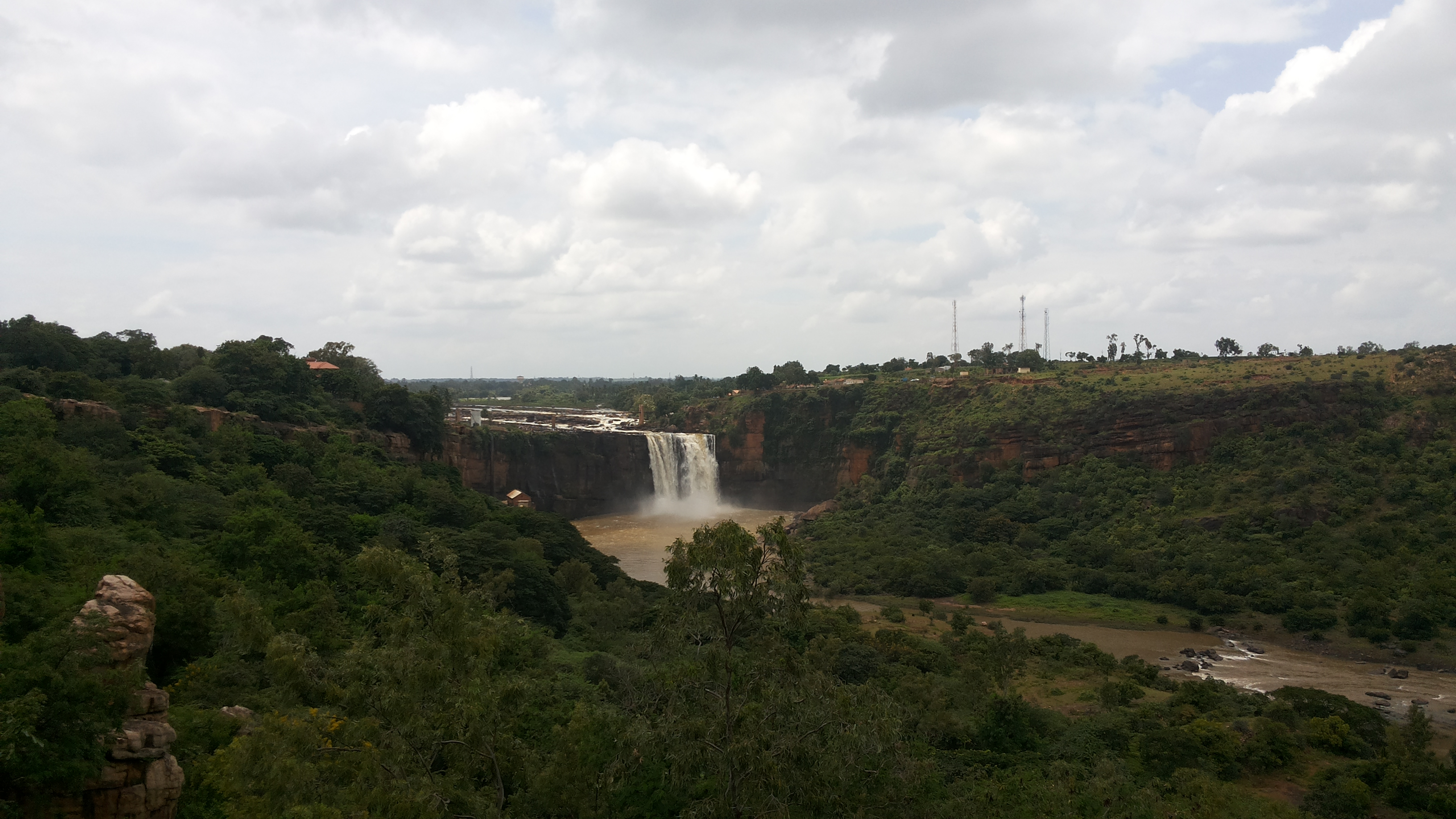 The Gokak Falls is a waterfall located on the Ghataprabha River in Belagavi district of Karnataka, India. The waterfall is six kilometers away from Gokak.